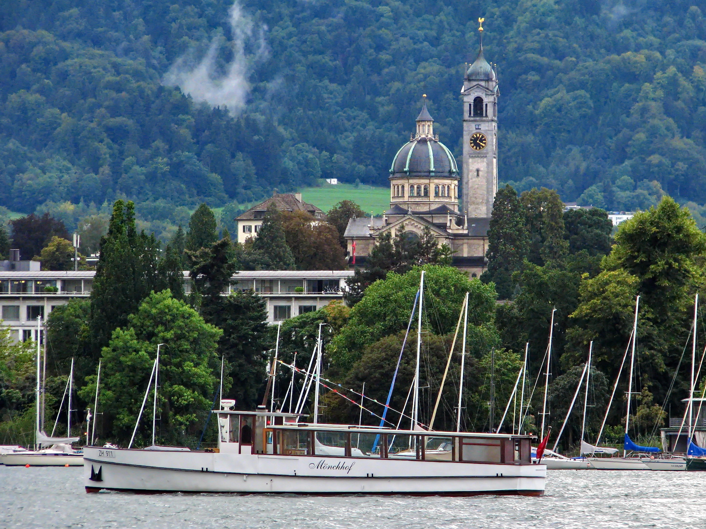 Reformierte Kirche in Zürich-Enge (Switzerland) as seen from Utoquai, MS Mönchhof in the foreground.